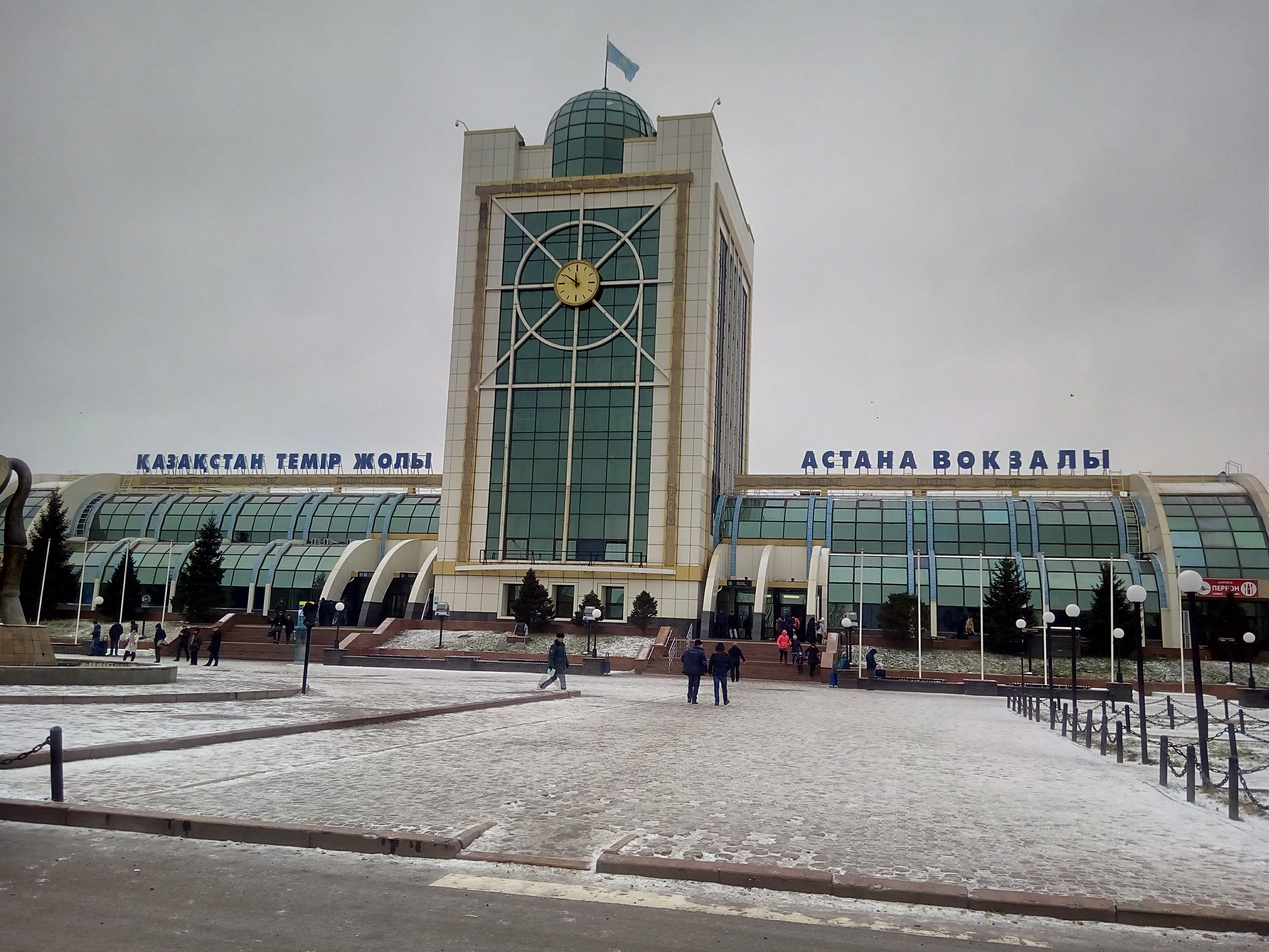 Nur-Sultan Railway Station